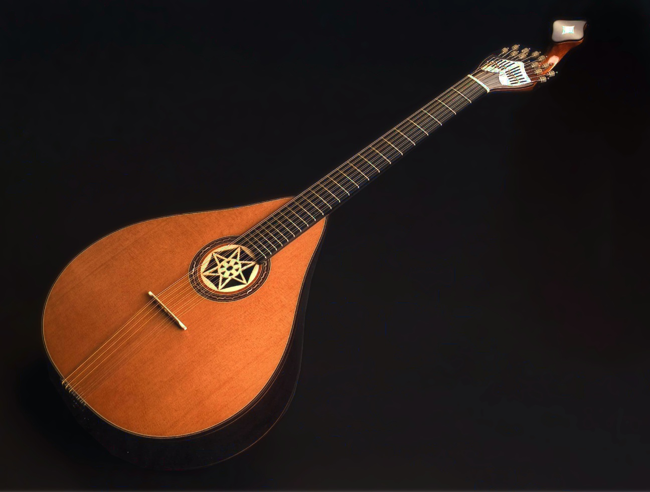 Guitolao